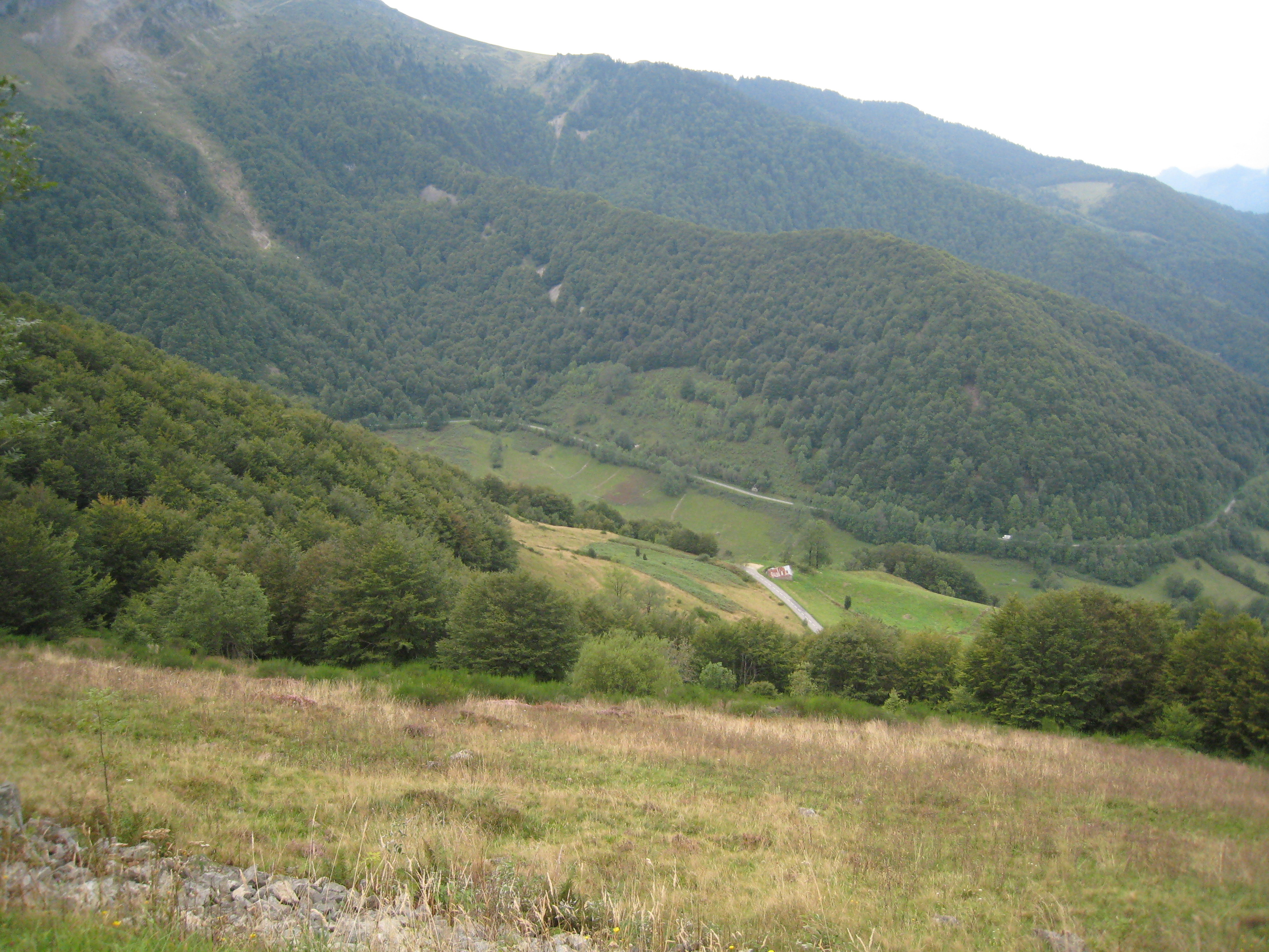 The view to the west from the Col de la Core